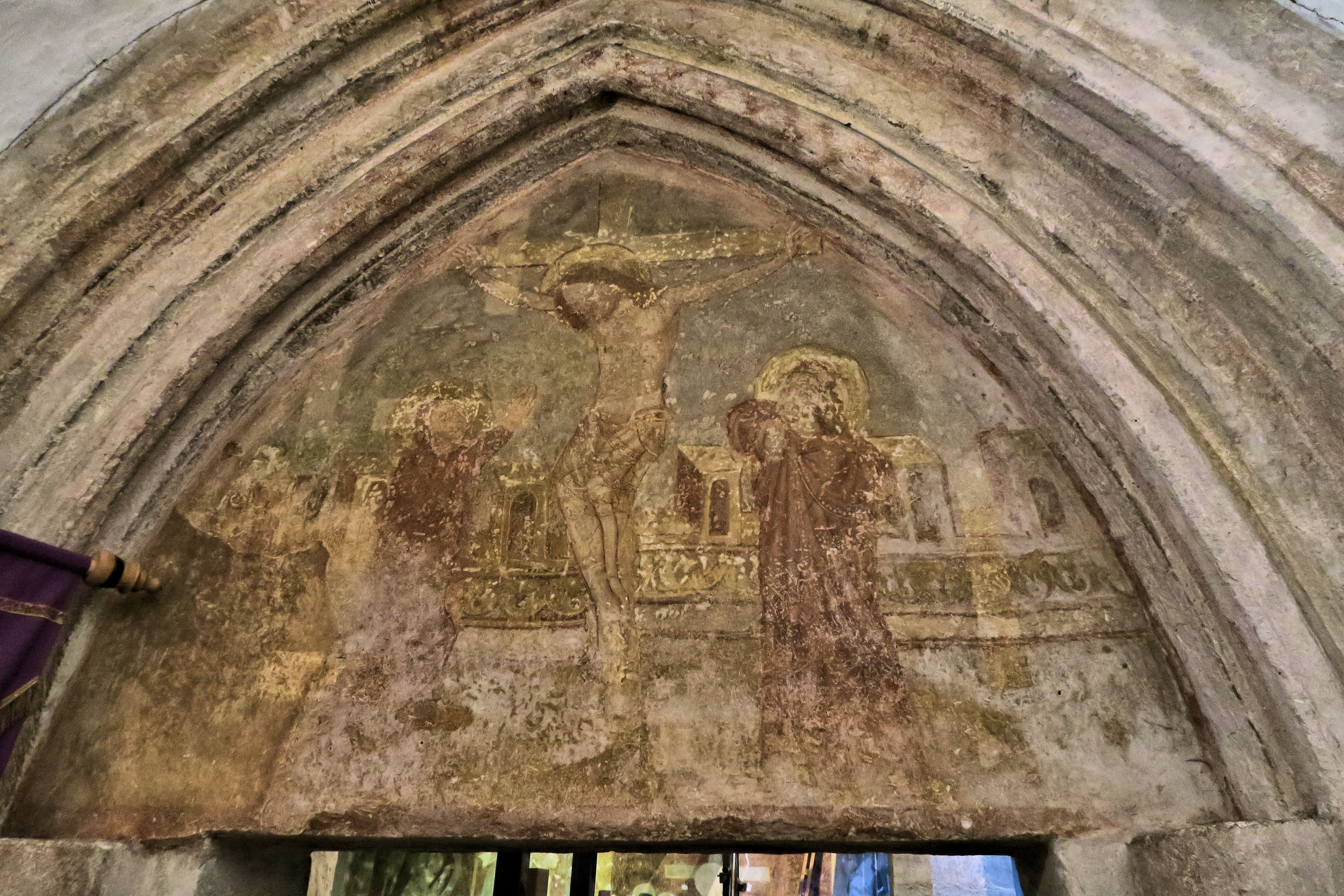 Holy Spirit Church (Žehra) Interior